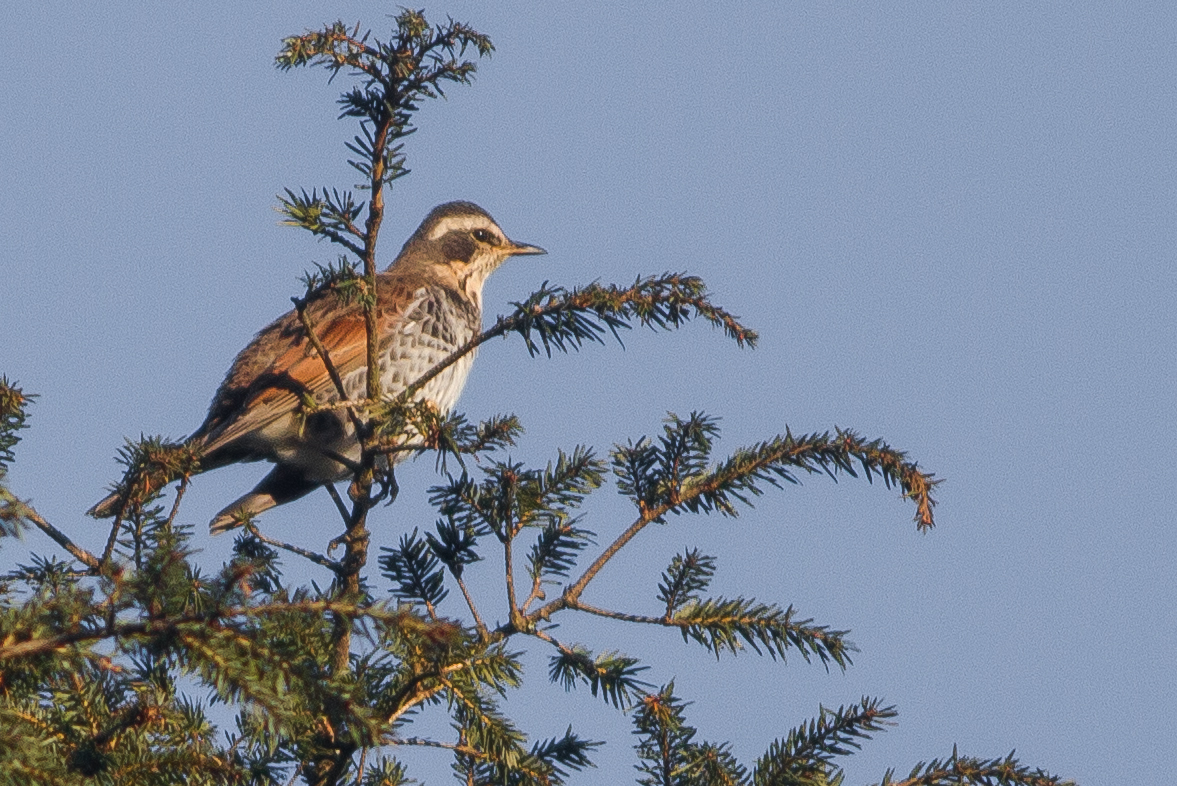 The species Dusky Thrush had been photographed from Senchal Wildlife Sanctuary in Darjeeling district of West Bengal, India on 02.01.2018 during the birding tour of GoingWild.